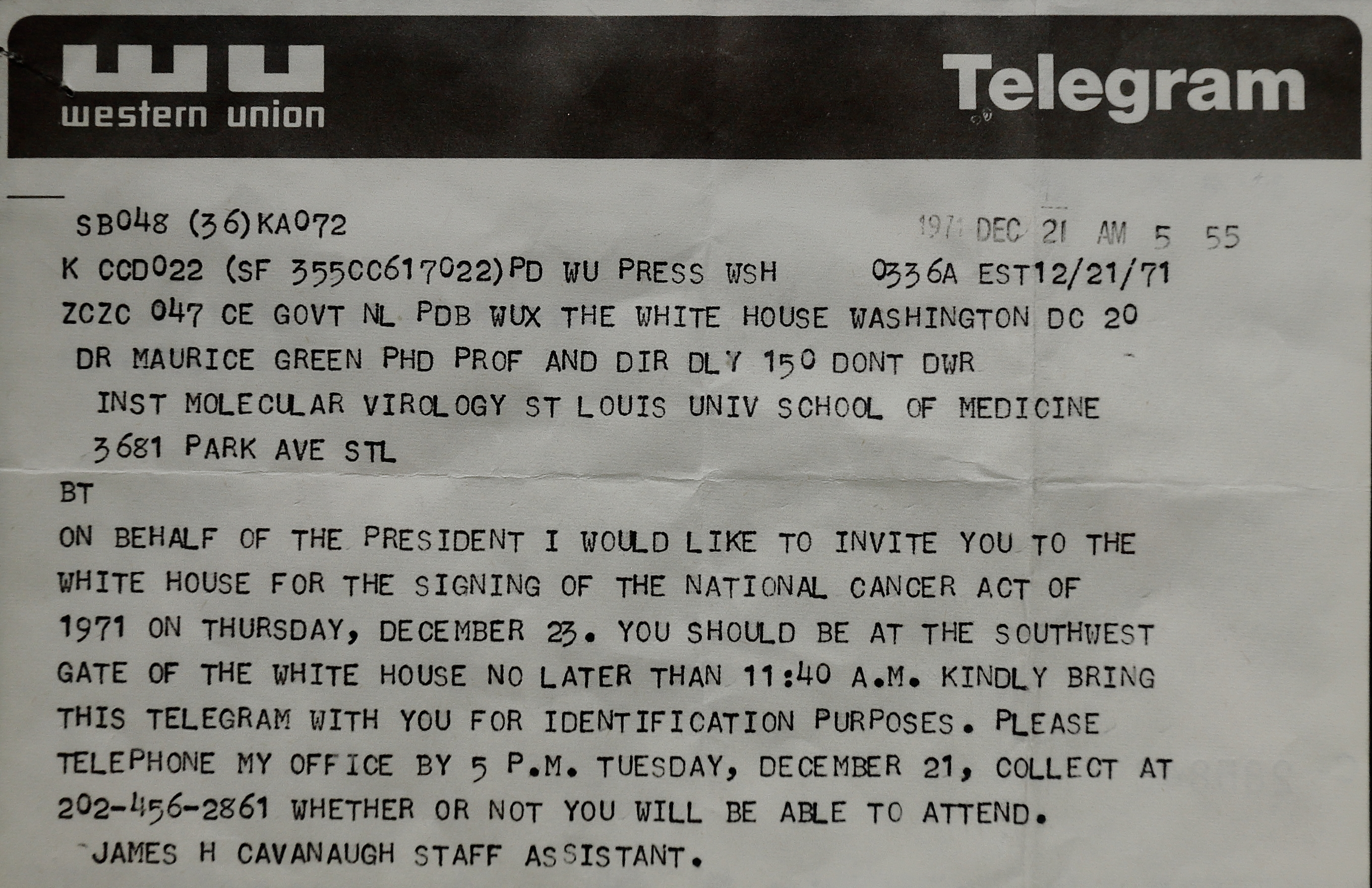 Telegram inviting Maurice Green to the National Cancer Act of 1971 Signing